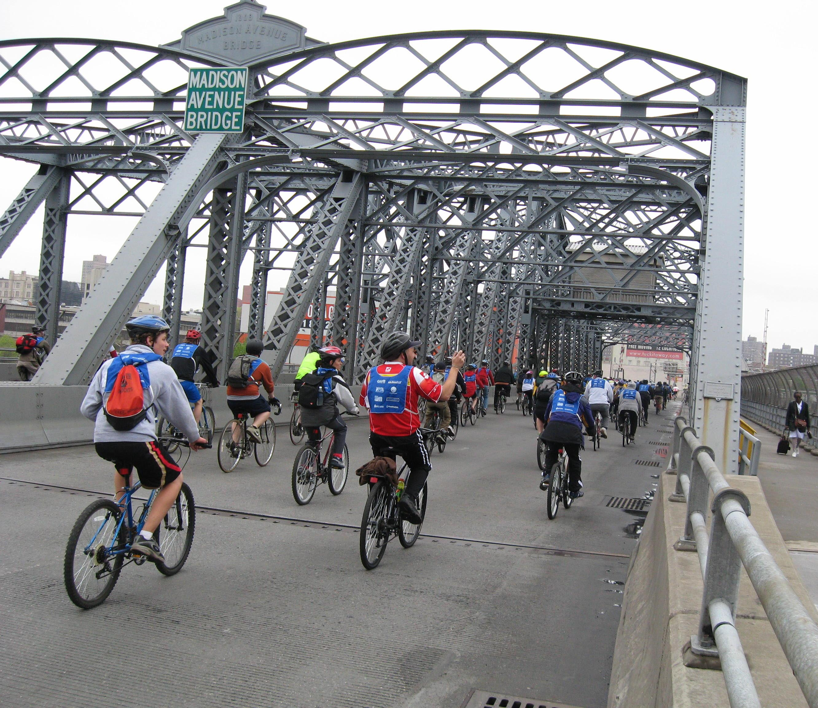 Looking east on the Madison Avenue Bridge during Five Boro Bike Tour on a cloudy late morning of springtime.